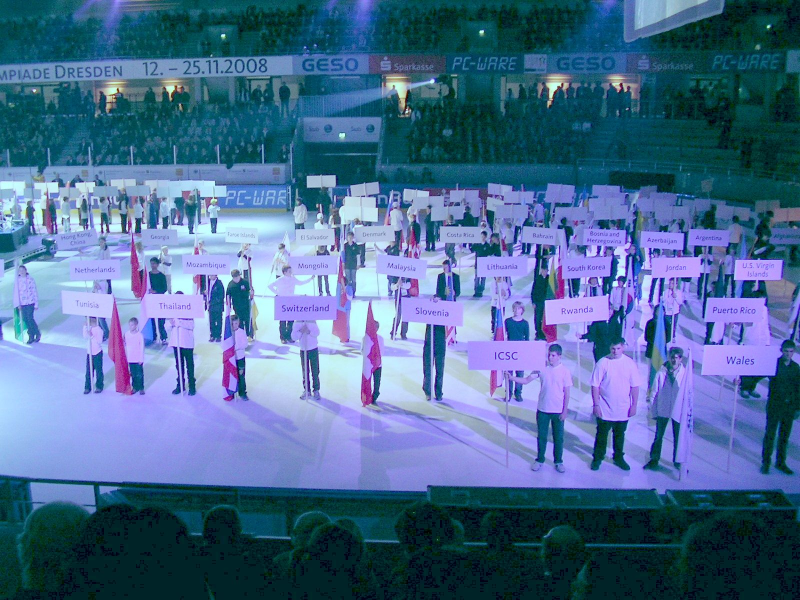 Opening ceremony, the nations moving-in, Chess Olympiad 2008, Photographer Gerhard Hund.